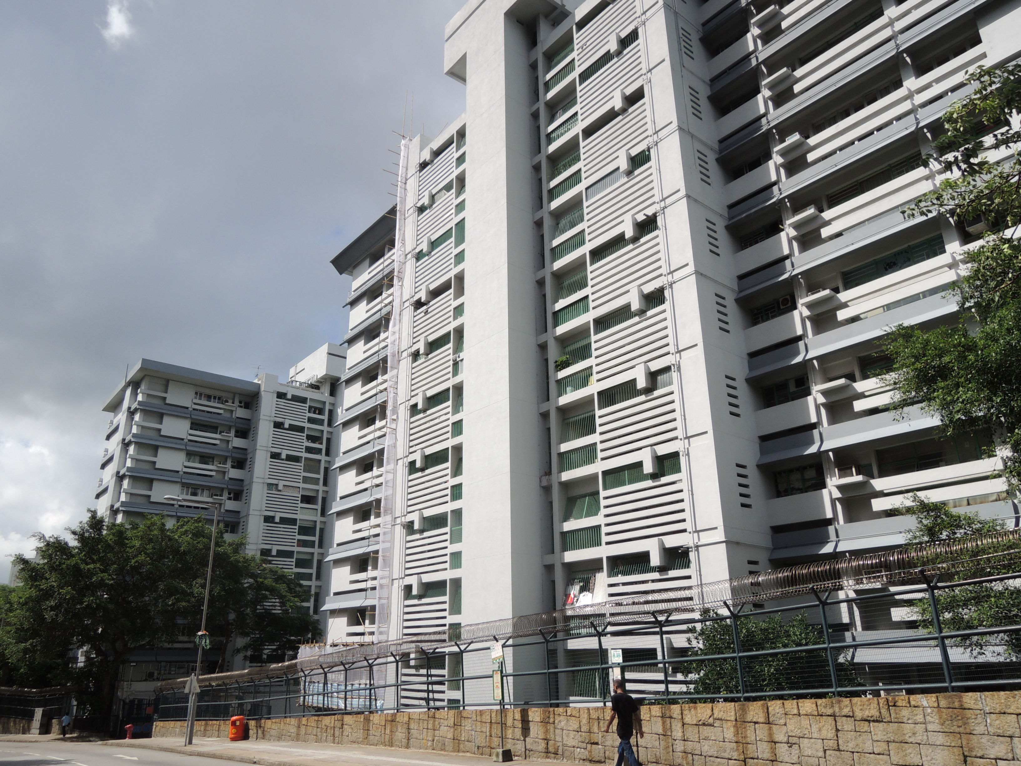 Lai King Terrace, New Territories, Hong Kong.